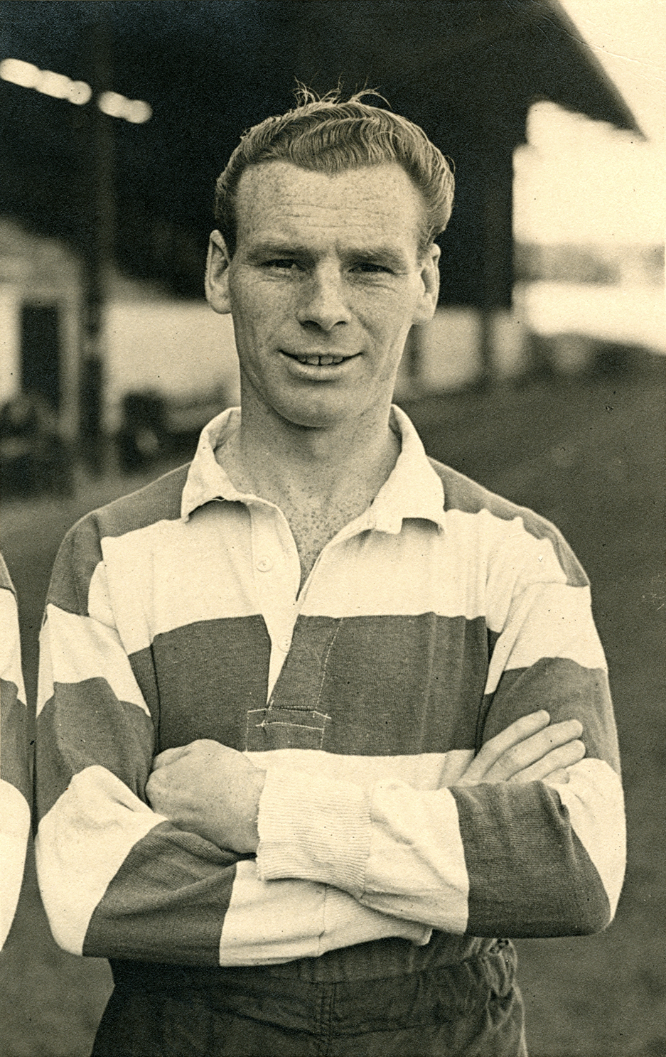 Dunston born footballer Joe Mallett, probably taken during the latter part of his term with Queens Park Rangers (Feb 1939 to Feb 1947).